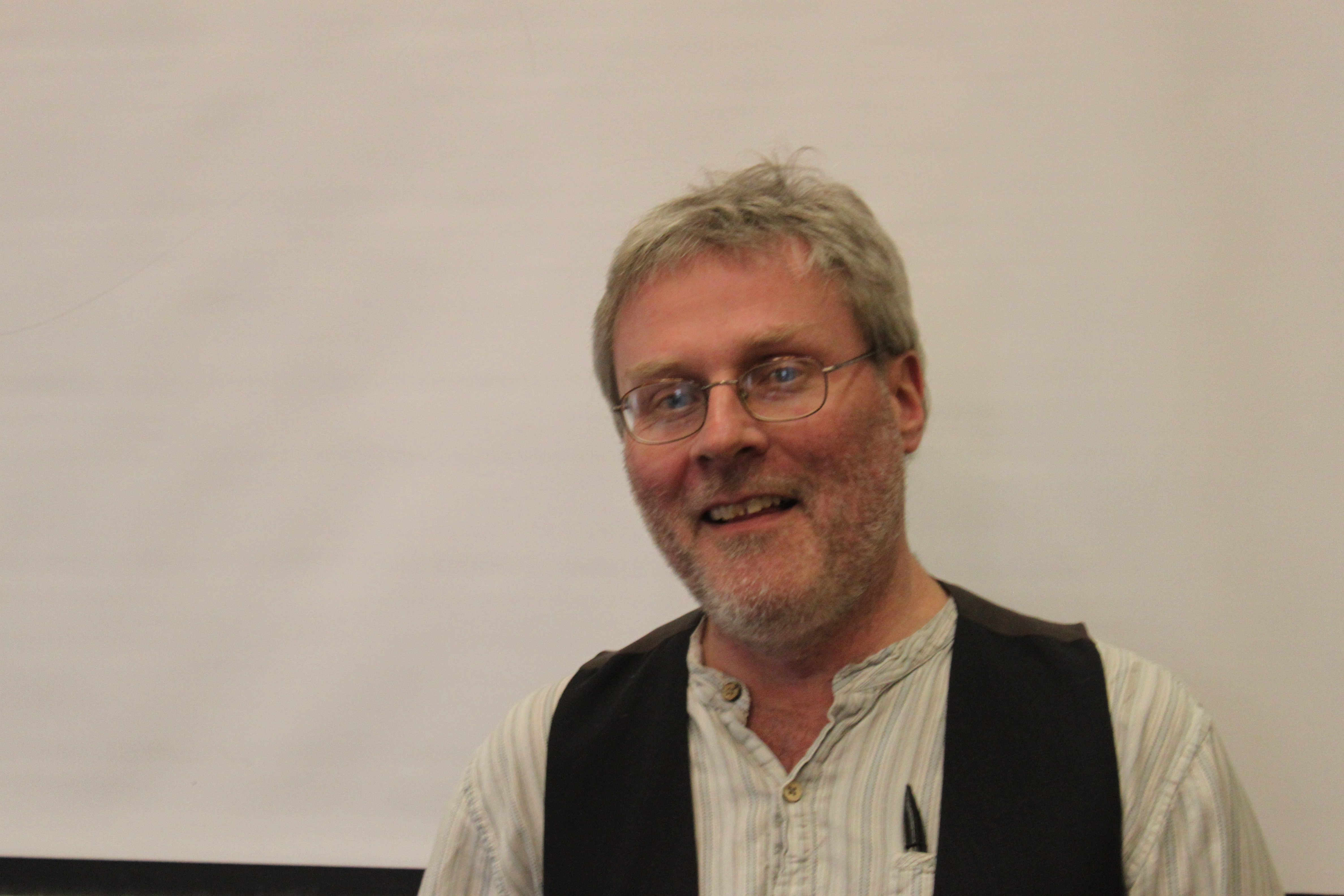 Rody Gorman - "I took this recently, it is free"